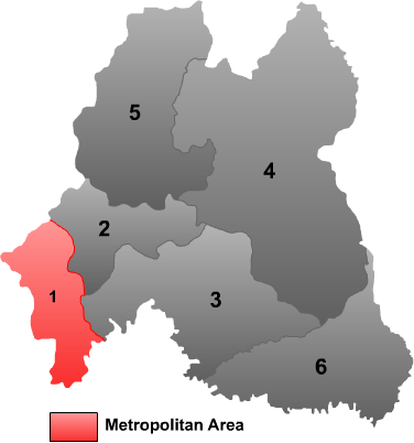 Map of Baishan prefecture in Jilin province